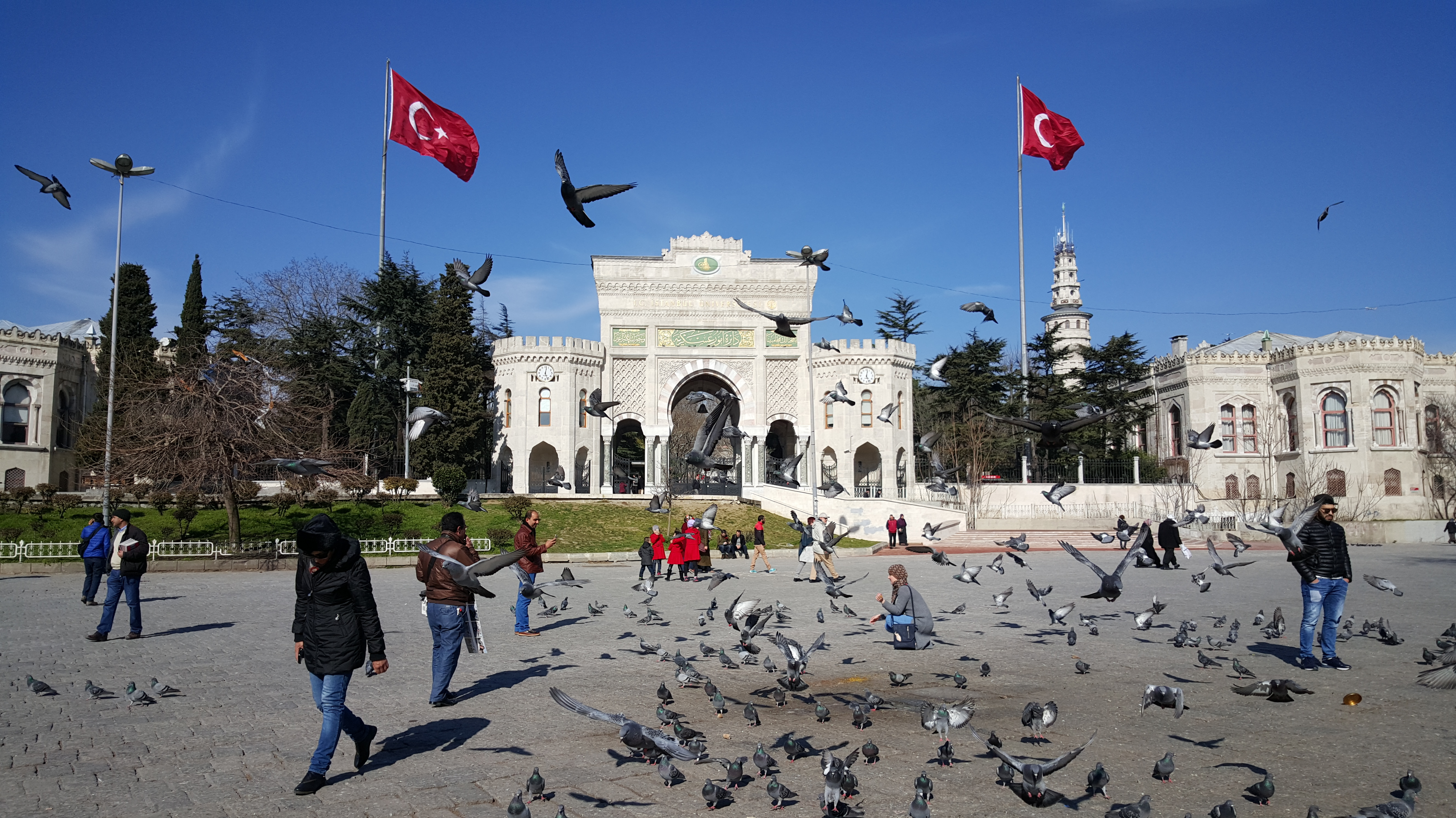 Main entrance gate of Istanbul University